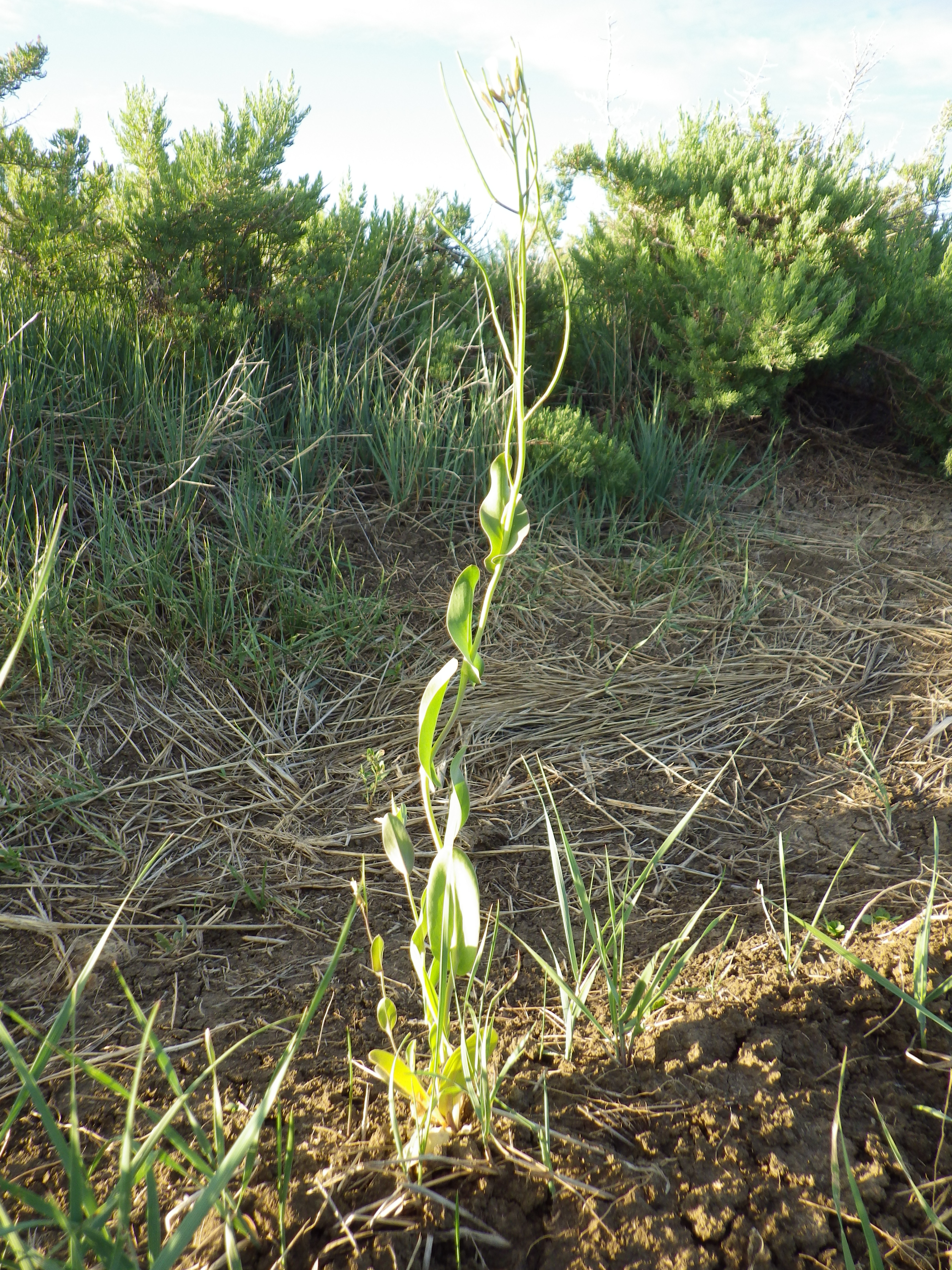 Conringia orientalis is occasionally common in pasture settings along roadside in pastures but is most common in this area on some of the clay knolls and slopes. The broad auriculate-clasping leaves are in part diagnostic.